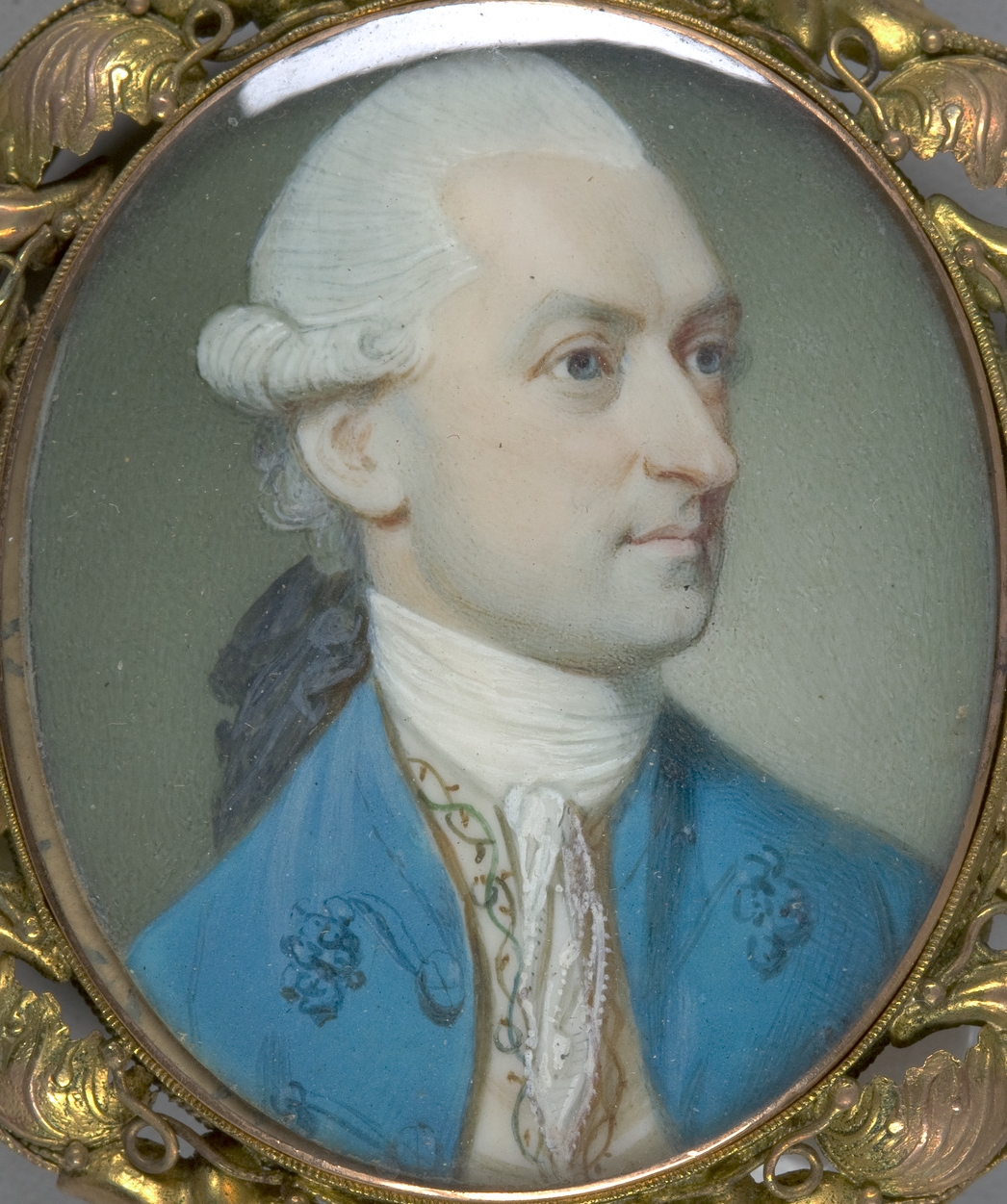 John Hancock (1737-1793) Signer of the Declaration of Independence, President of the Continental Congress (1775-77), Governor of Mass. (1780-85)